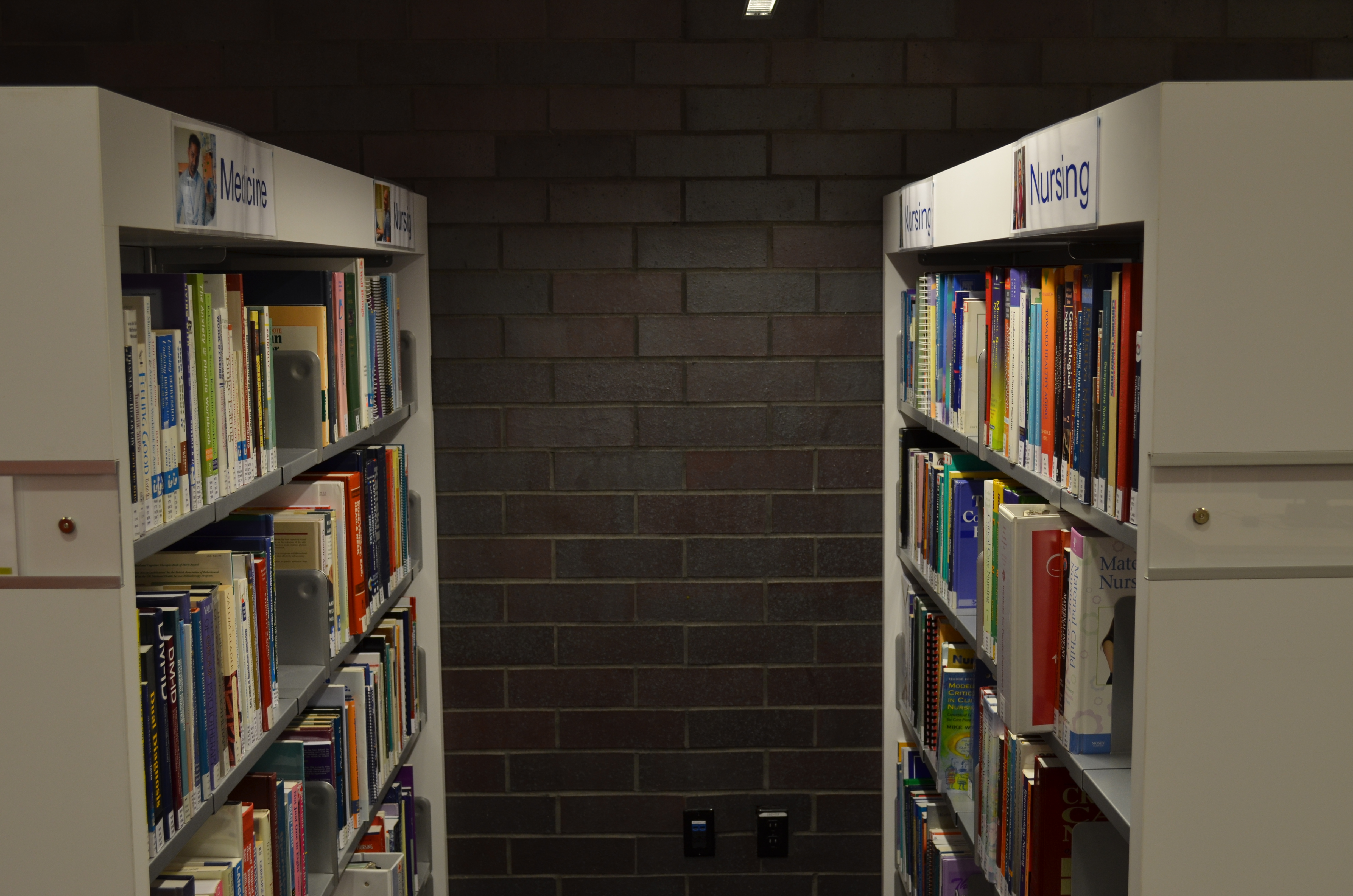 Markham Stouffville Hospital Library